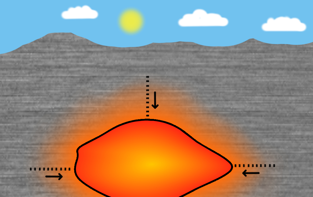 Rock contact metamorphism - Information for this image can be found in the book: Jorden - Illustrerat uppslagsverk/sid:80 /Förlag: Globe förlaget,2005,/ ISBN 91-7166-020-8 /Orginal title: Earth (ISBN 1-4053-0018-3)(2003 Doring Kindersley)